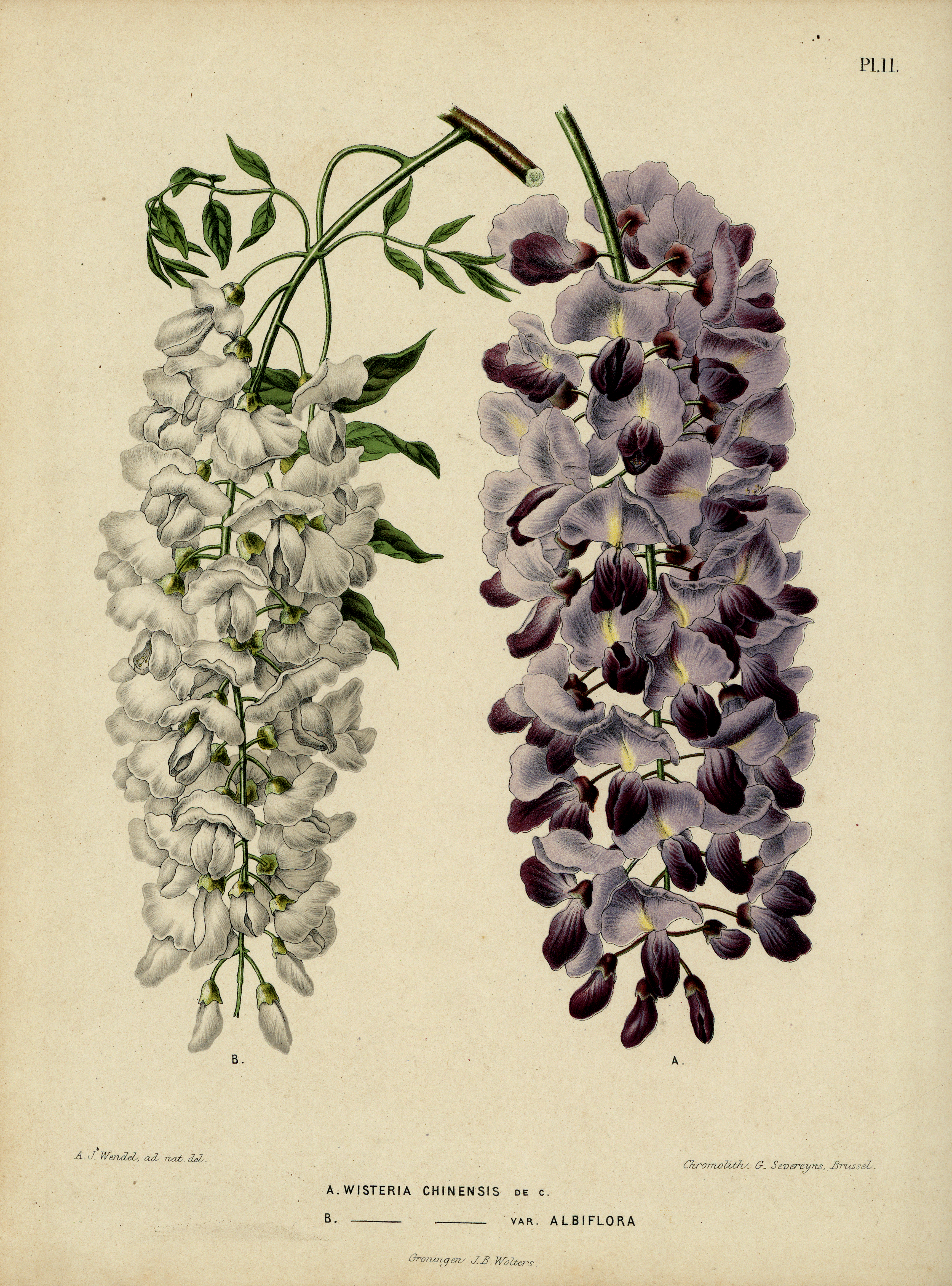 Plate 11: Wisteria chinensis. Image by Abraham Jacobus Wendel, from the Dutch language book Flora: afbeeldingen en beschrijvingen van boomen, heesters, éénjarige planten, enz. voorkomende in de Nederlandsche tuinen by H. Witte, illustr. by A.J. Wendel. Groningen: Wolters (1868) - converted from tif-file.